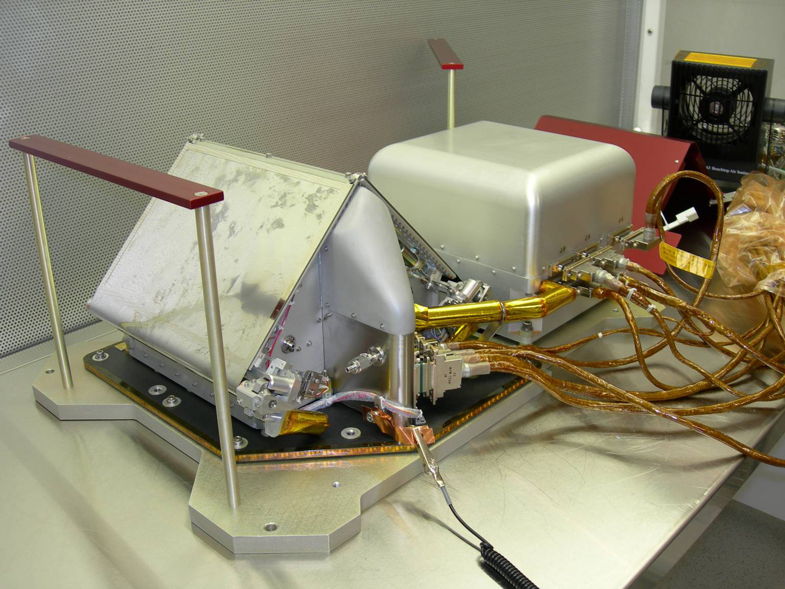 NASA's Phoenix Mars Lander carries an instrument to heat and sniff samples of Martian soil and ice to analyze some ingredients. The Thermal and Evolved-Gas Analyzer will study substances that are converted to gases by heating samples delivered to this instrument by the lander's robotic arm. It provides two types of information. One of its tools, called a differential scanning calorimeter (on the left in this photograph) monitors how much power is required to increase the temperature of the sample at a constant rate. This reveals which temperatures are transition points from solid to liquid and from liquid to gas for ingredients in the sample. The gases that are released, or "evolved" by this heating then go to a mass spectrometer (on the right), a tool that can identify the chemicals.